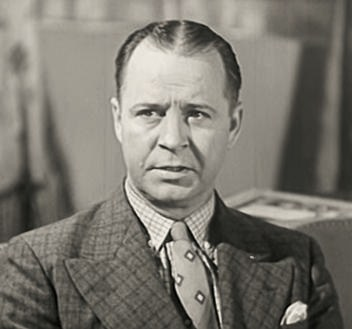 Harry Harvey in Here's Flash Casey - cropped screenshot